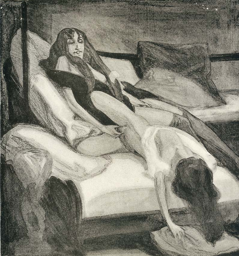 The red teacher from Tales from the Dressing Table